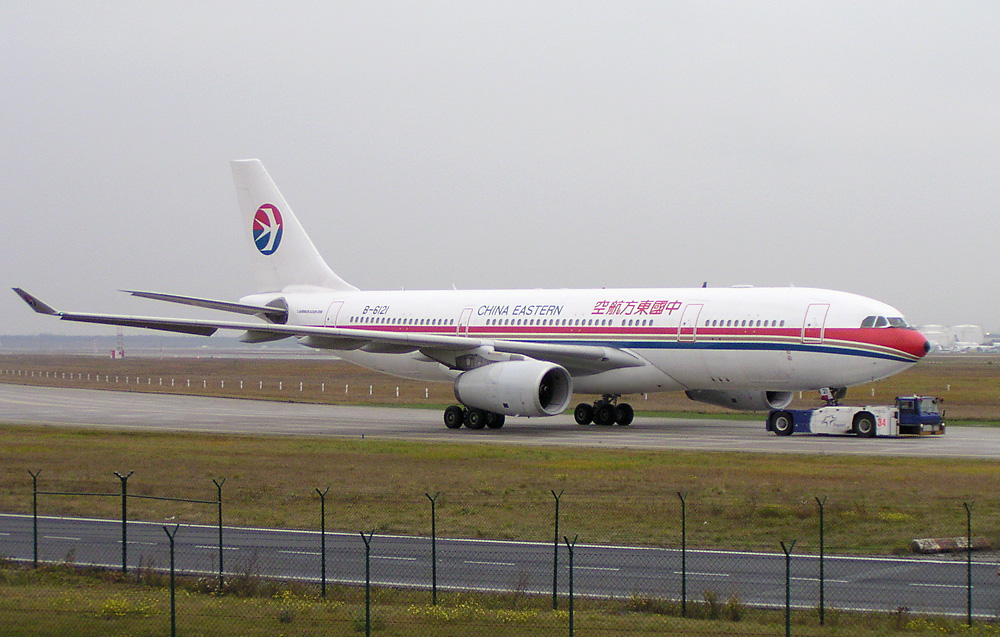 China Eastern Airlines Airbus A330-200 (B-6121) in Frankfurt (EDDF/FRA)